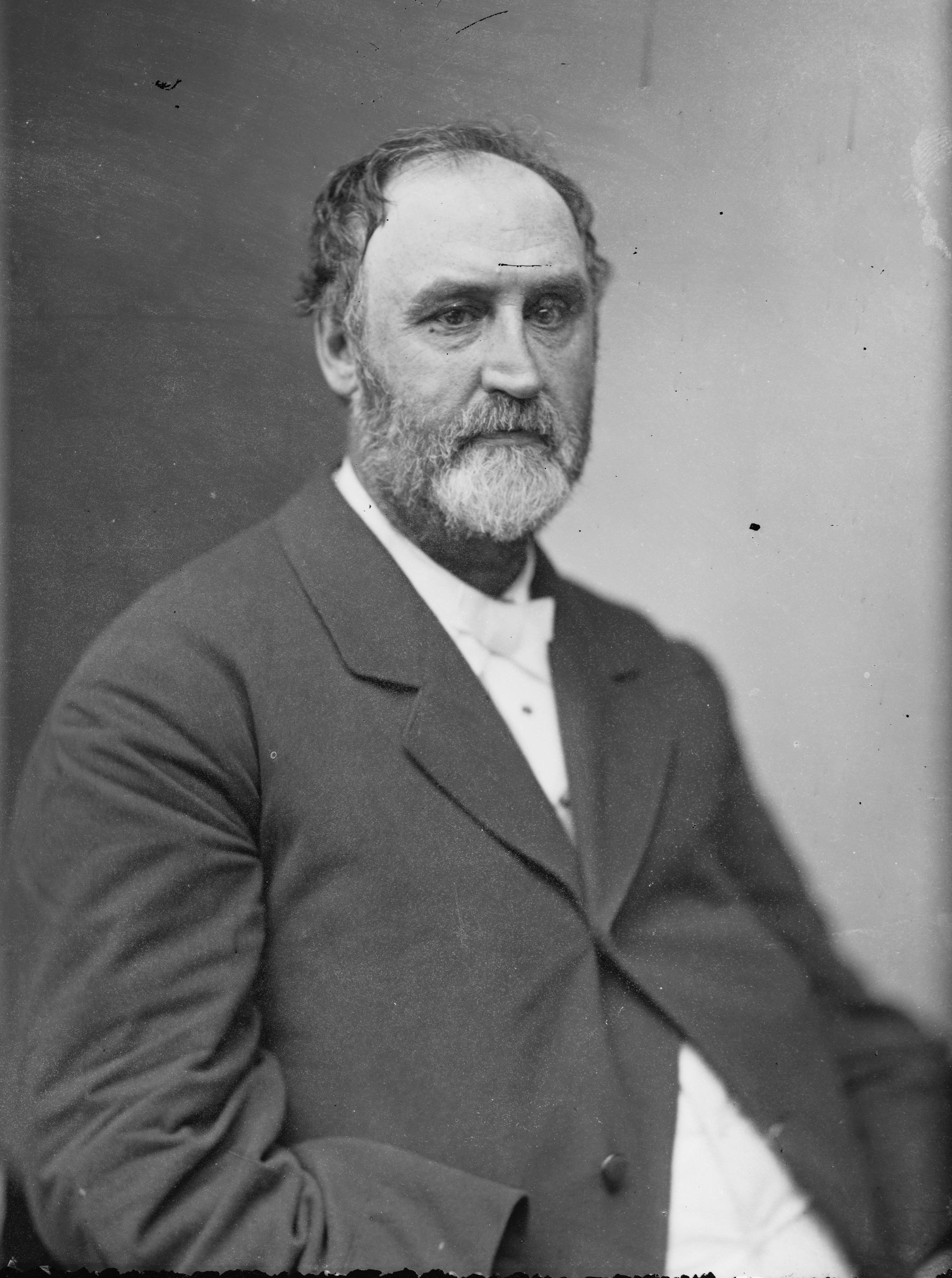 Russell Errett. Library of Congress description: "Errett, Hon. Russell, of Pa."